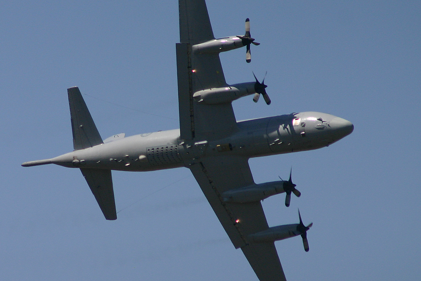 An AP-3C Orion at the 2008 Amberley Air Show